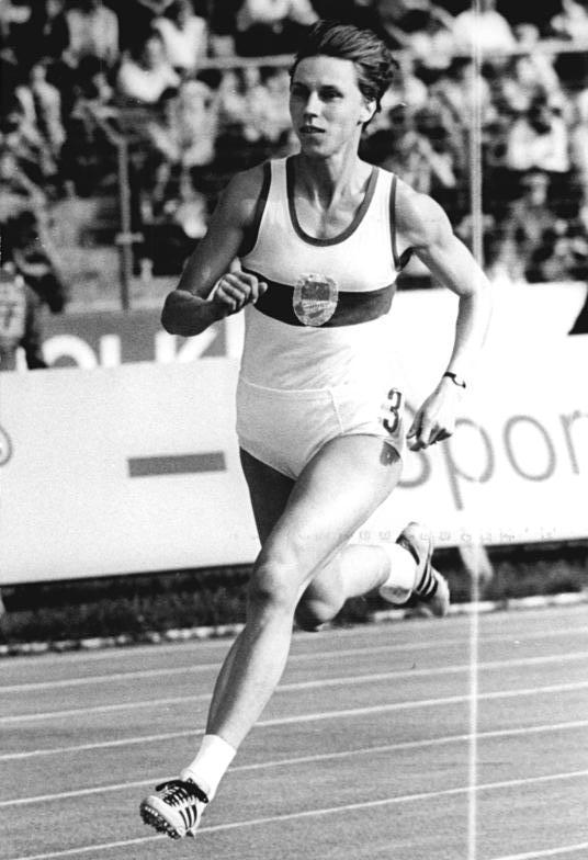 Marita Koch at the 1984 East German Championships in Athletics in Erfurt, Thuringia, Germany. She was the winner in the 400-meter race for women.